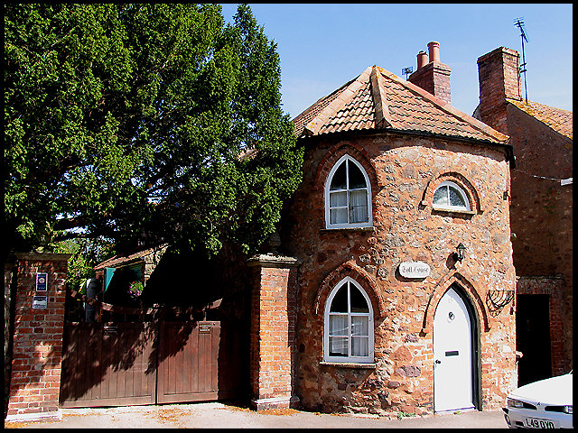 The Old Toll House: Nether Stowey. This old toll house is situated on the A39 that passes through the centre of the town and is in the north western section of the grid square. This picture was taken from the other side of the road which is very narrow and very busy.